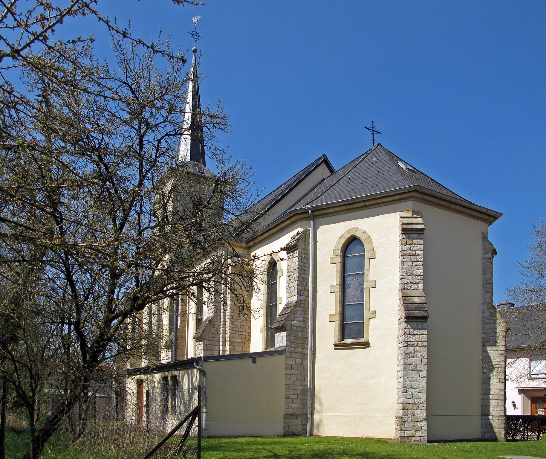 Church of Greisch, Luxembourg